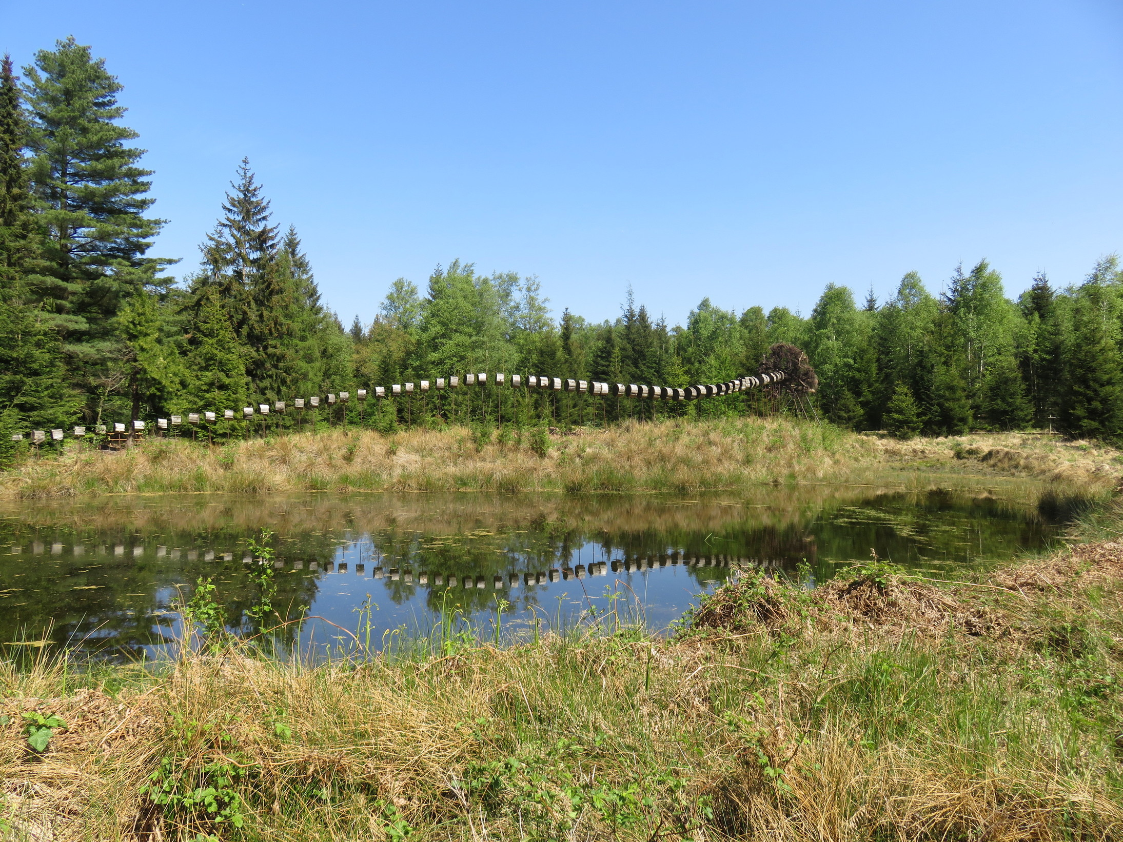 Art in arboretum Mefferscheid im Hertogenwald (be)